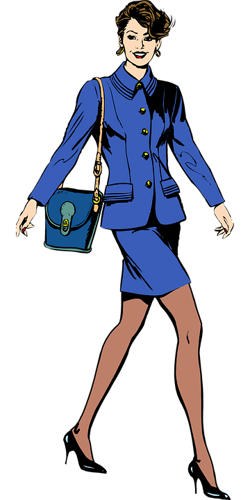 Women's suit